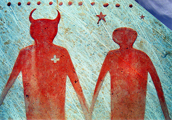 Ojibwe Cultural Foundation, M'Chigeeng , West Bay, Ontario